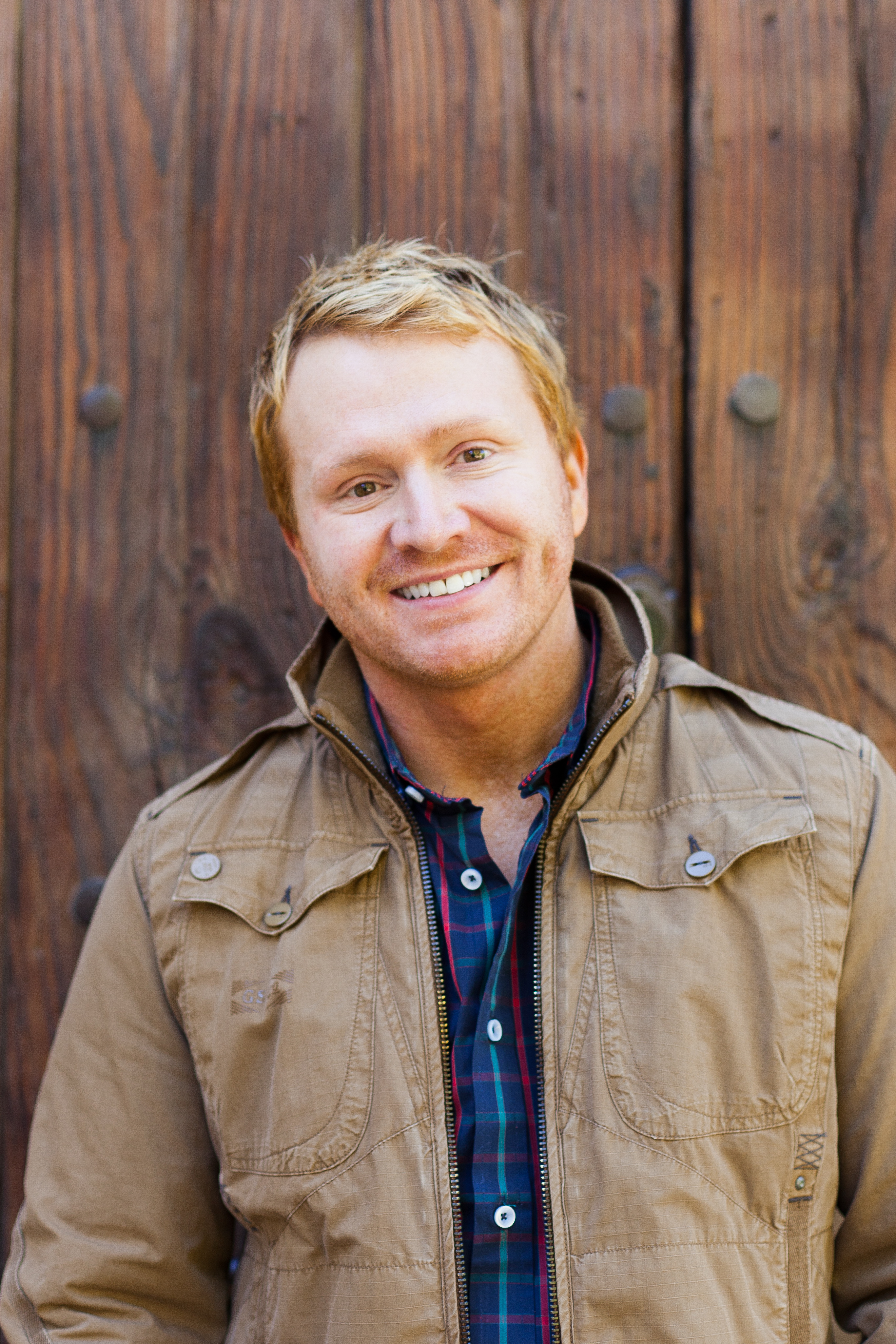 Shane Mcanally photo